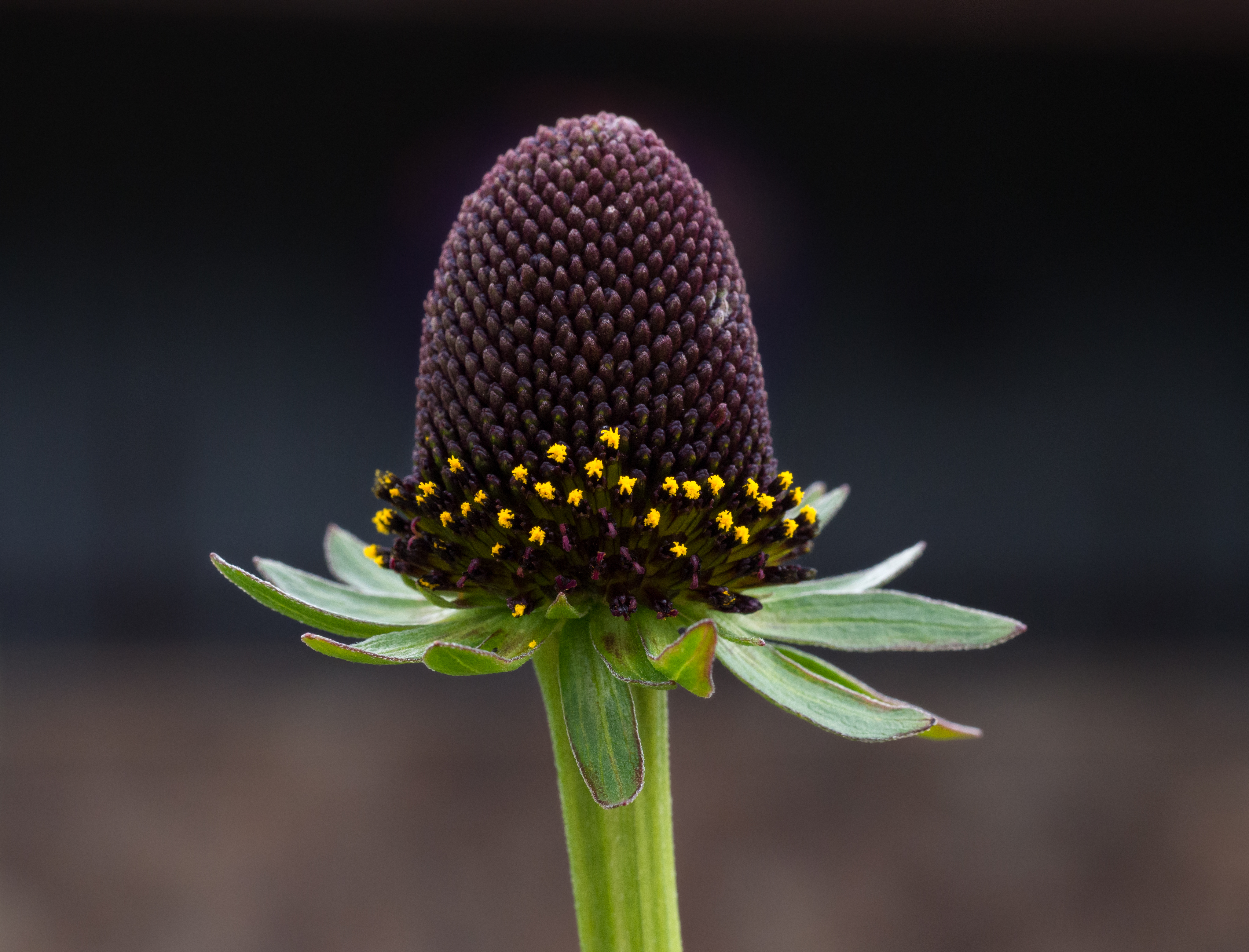 Western coneflower (Rudbeckia occidentalis) on Aspen Mountain.